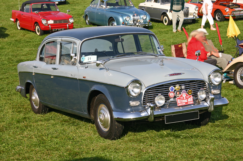 Humber Hawk Series I. Launched in 1957, the Series I Humber Hawk brought a new unitary body shell designed by Rootes